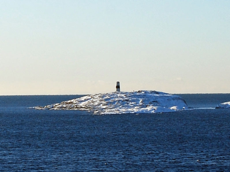 Nautical mark (cairn) on island Usholmens kalv, Sweden